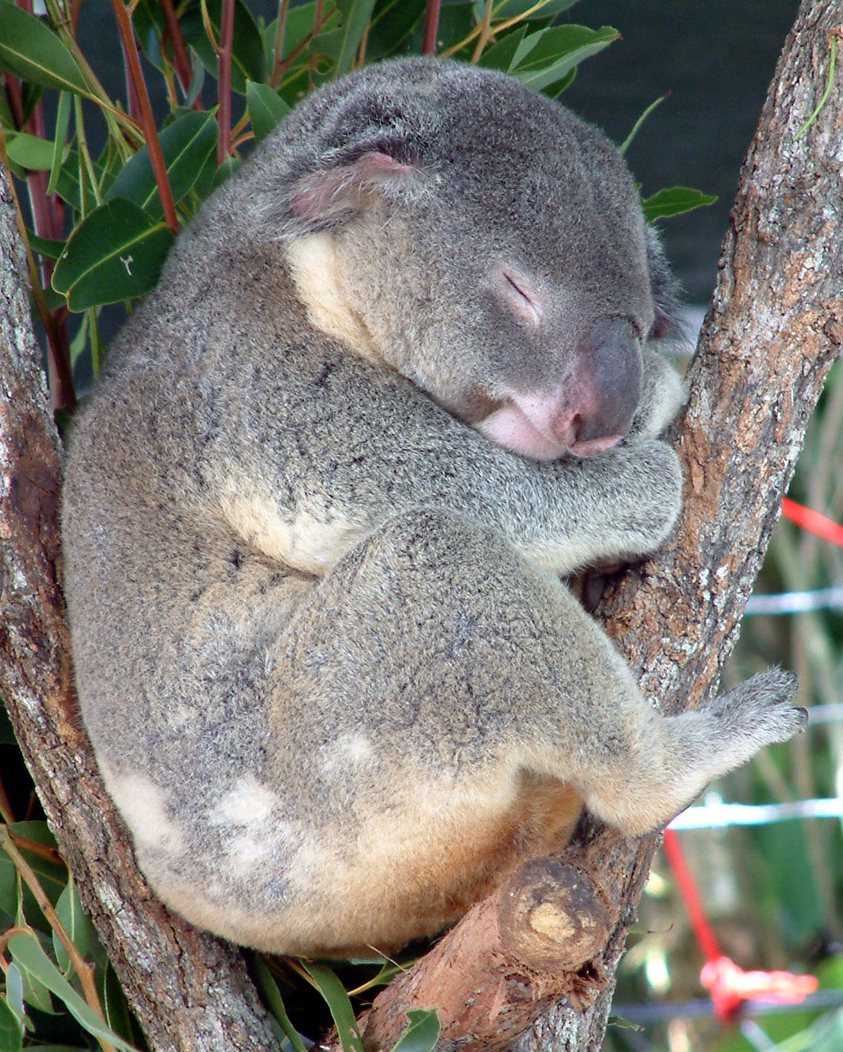 Koala (Phascolarctos cinereus) in a park at Cairns (Australia).